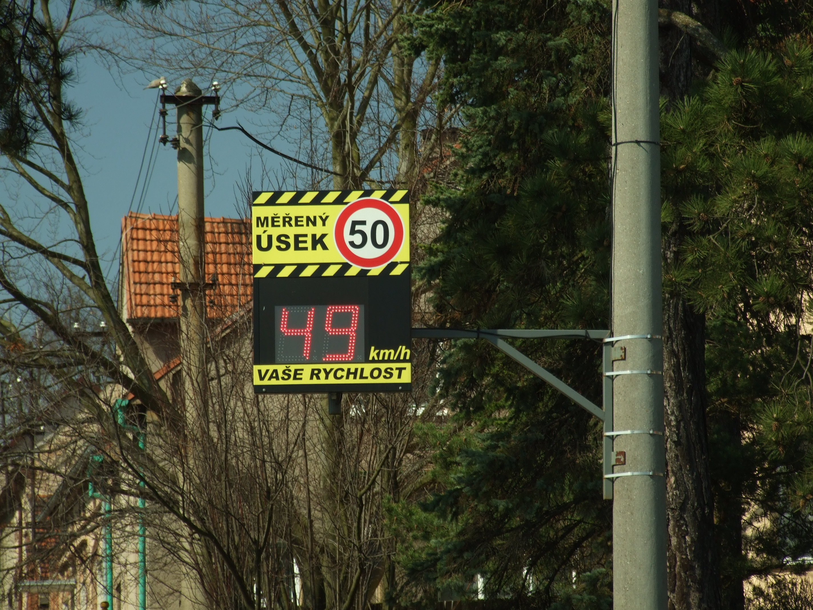 Speeding meter in Řevničov, Rakovník District. Central Bohemian Region, CZ